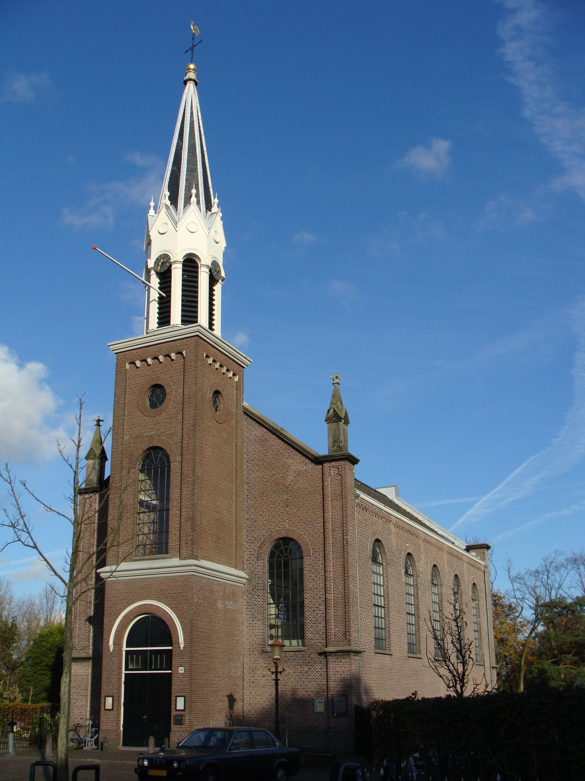 Sloterkerk in Sloten, North-Holland, the Netherlands (near Amsterdam). The church is from 1860